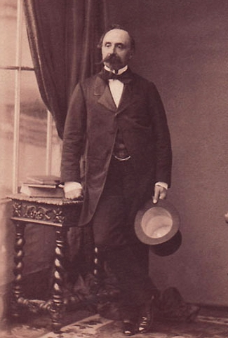 Adolphe Eugène Disderi (1819-1890), Salvatore Pes, marquess of Villamarina (1808-1877), embasssador of the Kingdom of Sardinia.